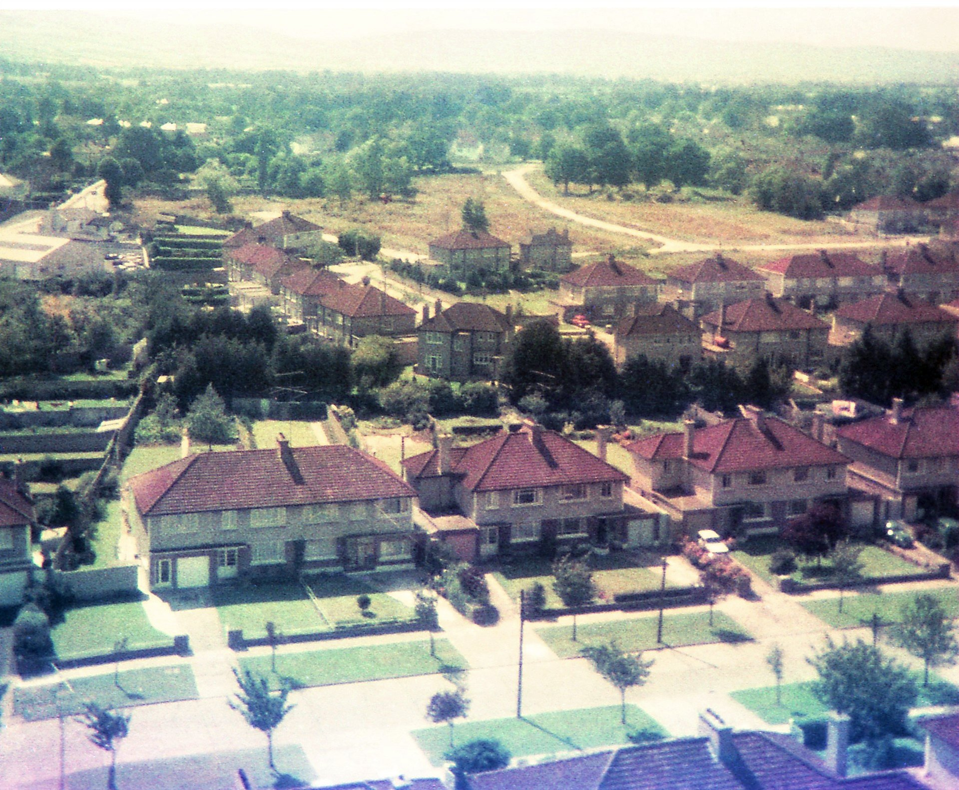 Aerial view from 38 metres height in 1972 of Templeville Road (foreground) and Templeville Drive (background) in Templeogue, Dublin, Ireland. Picture taken with Kodak Instamatic 33 camera. Digitized from 126 film negative.